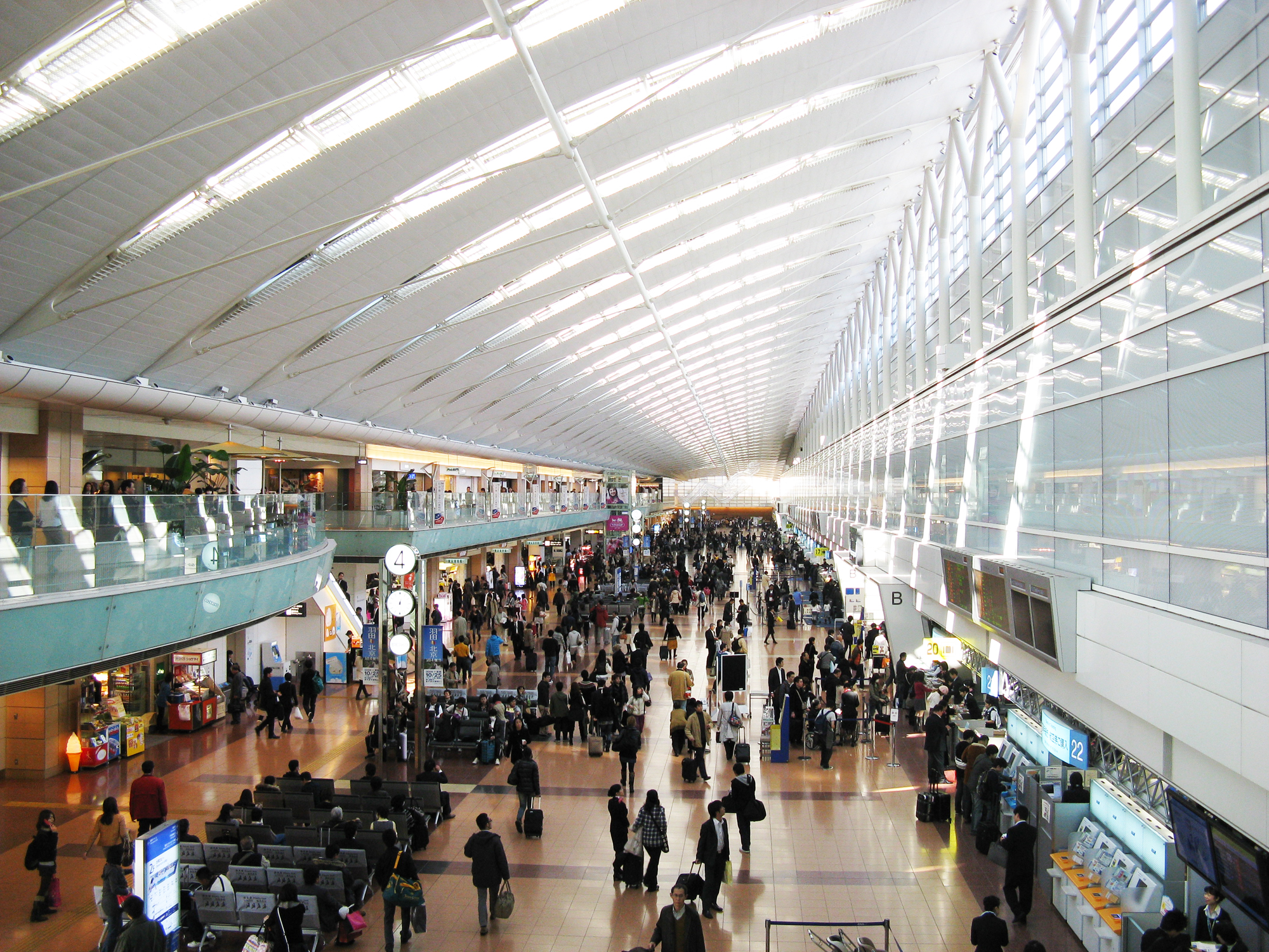 I took this photo.